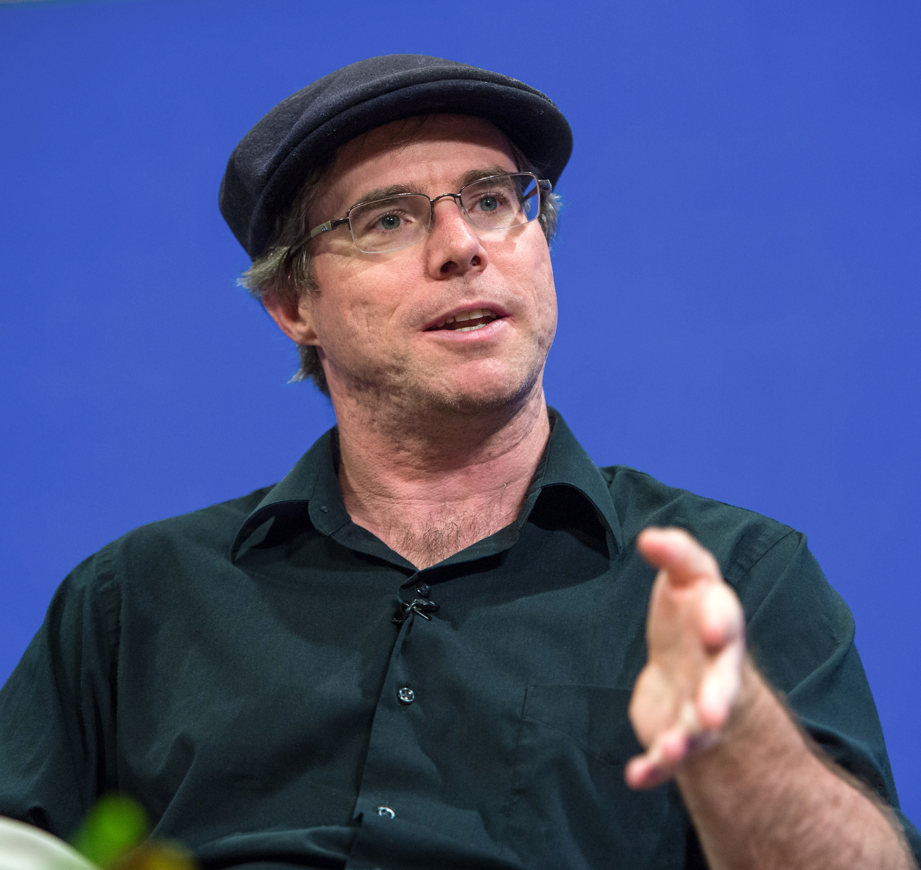 Author of “The Martian” Andy Weir participates in a Jet Propulsion Laboratory (JPL) employee panel discussion about NASA’s journey to Mars and the film "The Martian," Tuesday, Aug. 18, 2015, at JPL in Pasadena, California. NASA scientists and engineers served as technical consultants on the film. The movie portrays a realistic view of the climate and topography of Mars, based on NASA data, and some of the challenges NASA faces as we prepare for human exploration of the Red Planet in the 2030s.